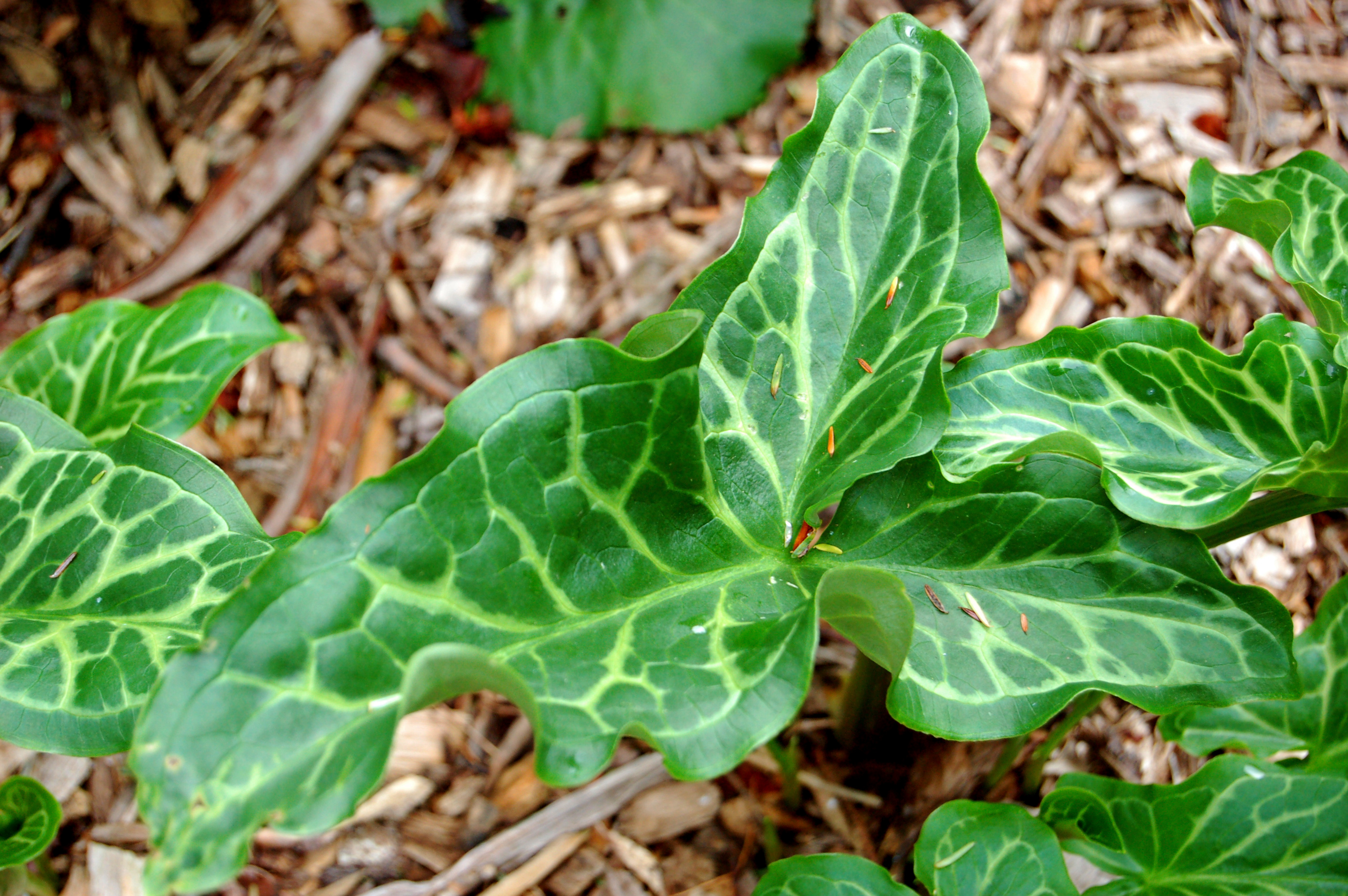 Photograph of the leaf of the Cuckoo Pint (Arum italicum). Photo taken at the Tyler Arboretum where it was identified.